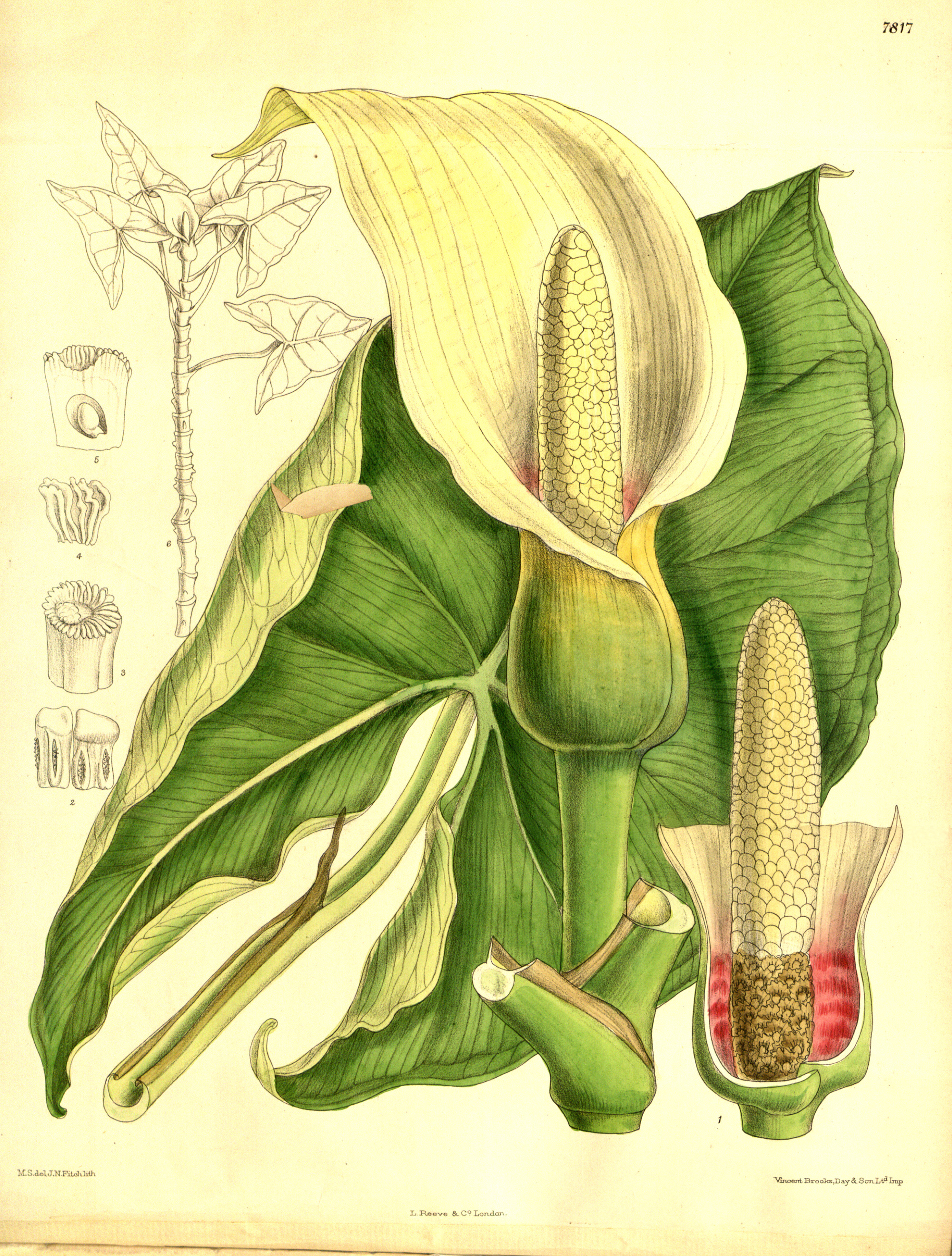 Illustration of Montrichardia arborescens